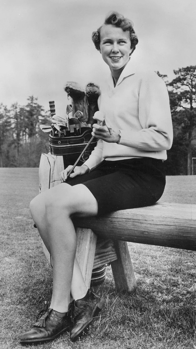 Mickey Wright LPGA Tour Publicity Bureau 1960 Press Wire Photo